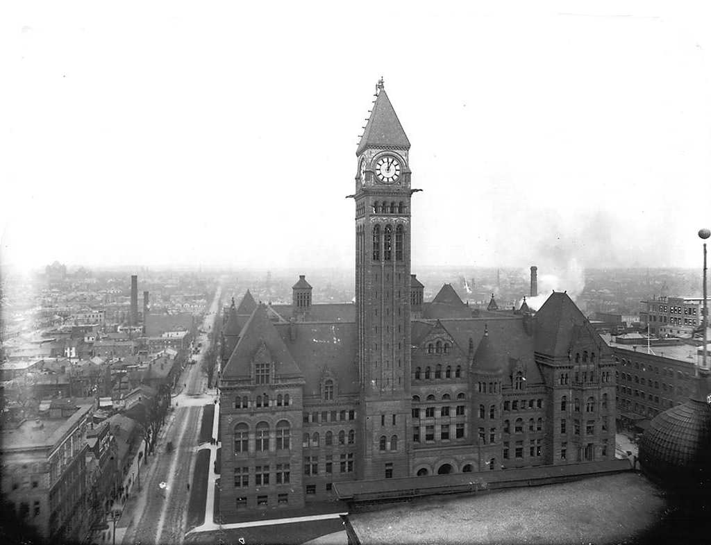 City Hall and Terauley Street (later renamed Bay Street). Taken from the roof of the Temple Building. (Toronto, Canada).